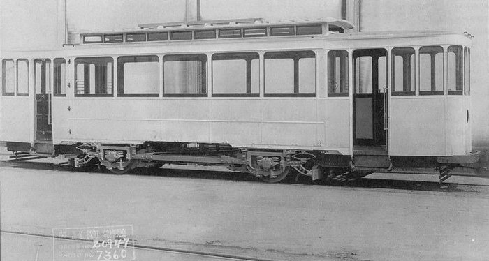 Kristiania Sporveisselskab Brill tram (Class H) no. 155 (later 539)